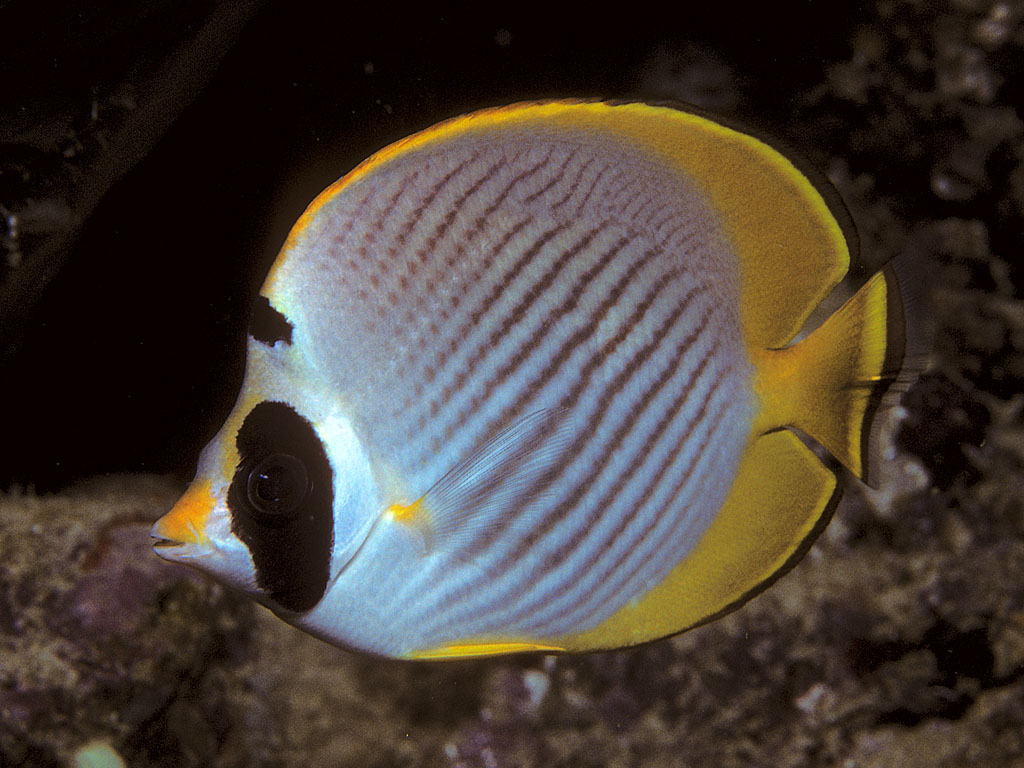 Chaetodon adiergastos, Philippine butterflyfish. Underwater photograph, Pemuteran, Bali, Indonesia.